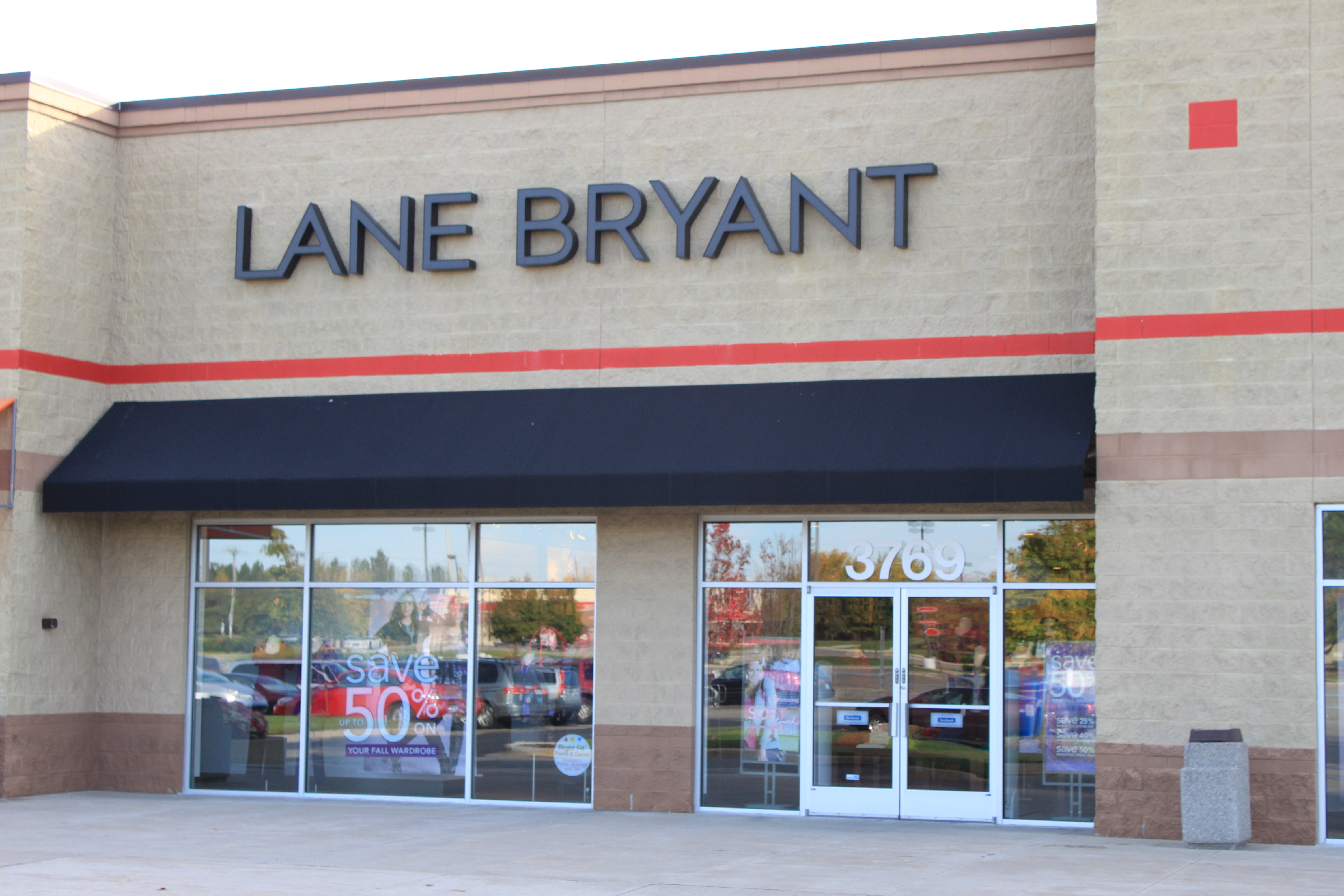 Lane Bryant shop, 3769 Carpenter Road, Pittsfield Township, Michigan